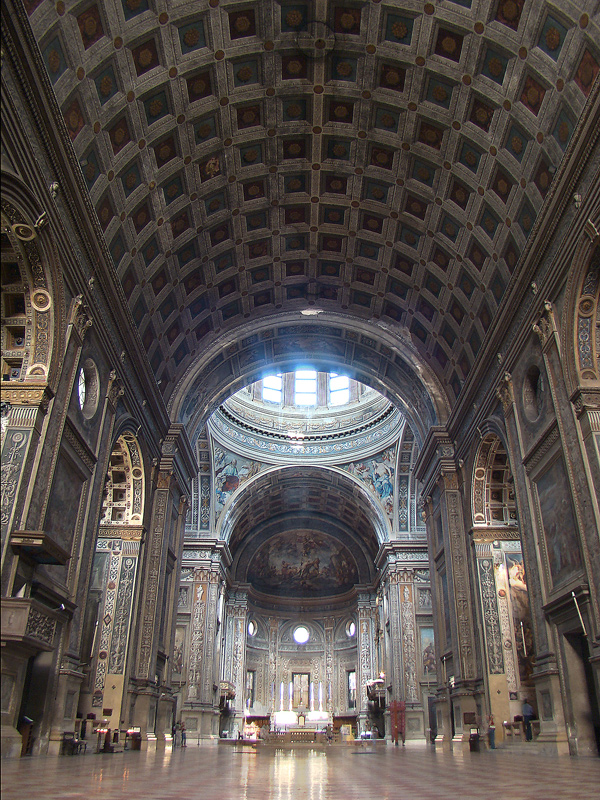 Basilica di Sant'Andrea, Mantua, Lombardy, Italy.